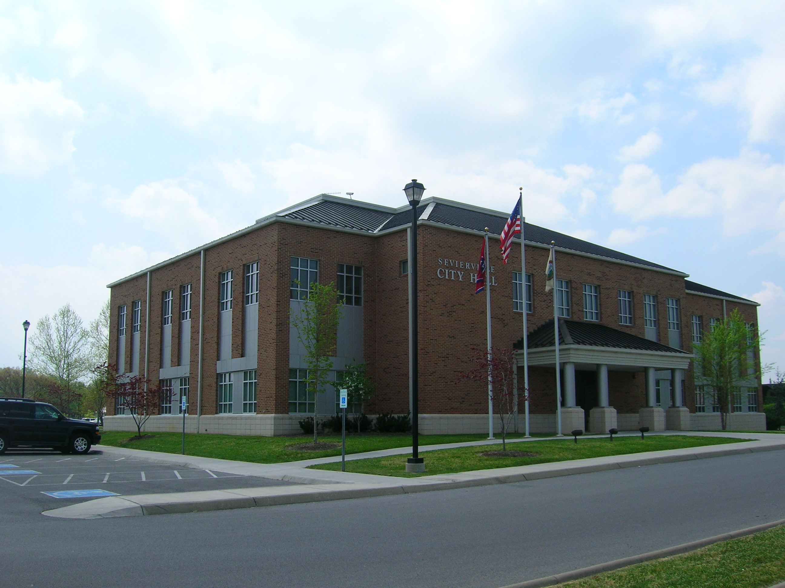 The Sevierville, Tennessee City Hall, located just east of downtown, 120 Gary Wade Blvd off of U.S. Highway 411. Photo taken by myself, Scott Basford, in April of 2006.